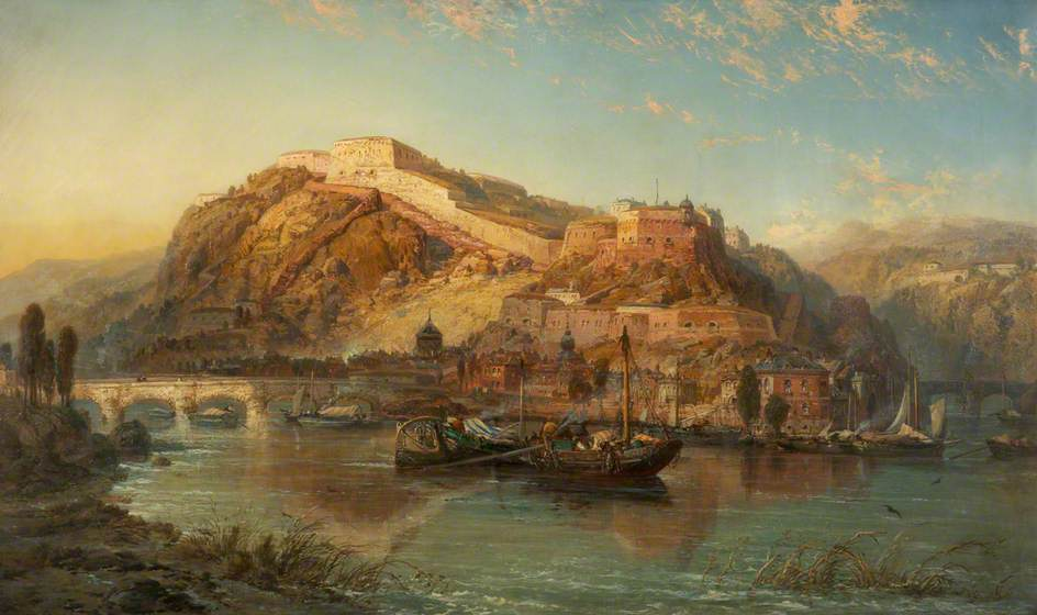 View of Namur (James Webb, 1877)